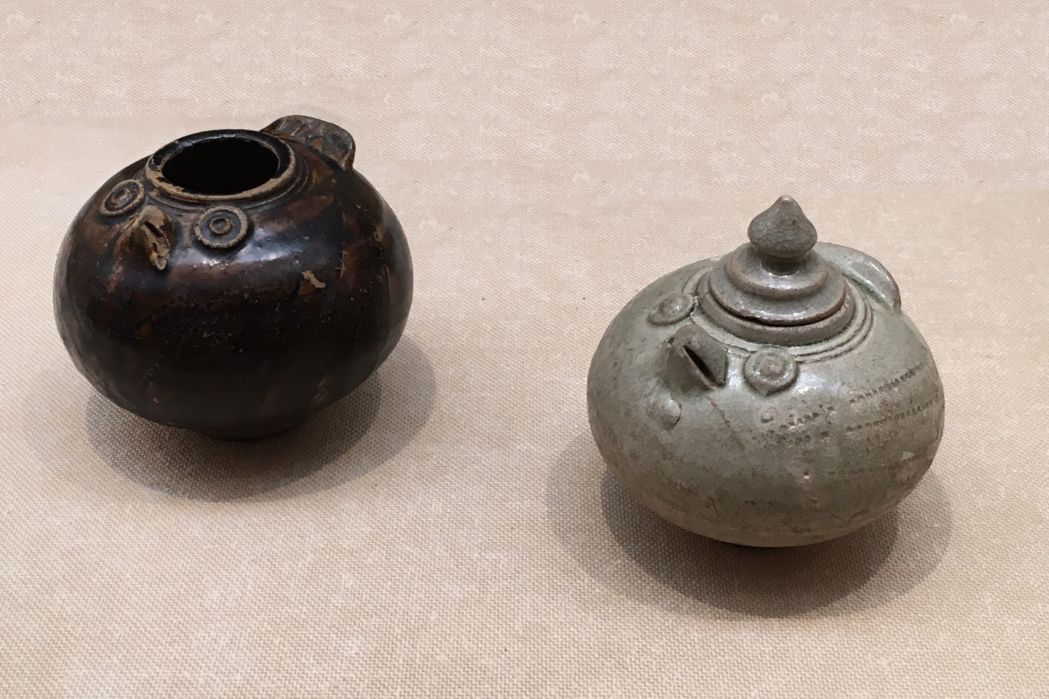 (left) Bird-shaped small jar. 12th-13th century. Cambodia. Note: Aichi Prefectural Ceramic Museum (Nishigaki Chiyoko Collection) (right) Jar, bird-shaped, ash glaze. 11th-12th century. Cambodia. Height: 10.6/7.7 cm Mouth Diameter: 4 cm Diameter: 10 cm Other: 4.0 cm (bottom diameter) Note: Gift of Mr. KATO Shunto.